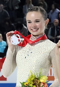 The ladies podium at the 2016 Skate America. From left: Mariah Bell (2nd); Ashley Wagner (1st); Mai Mihara (3rd).